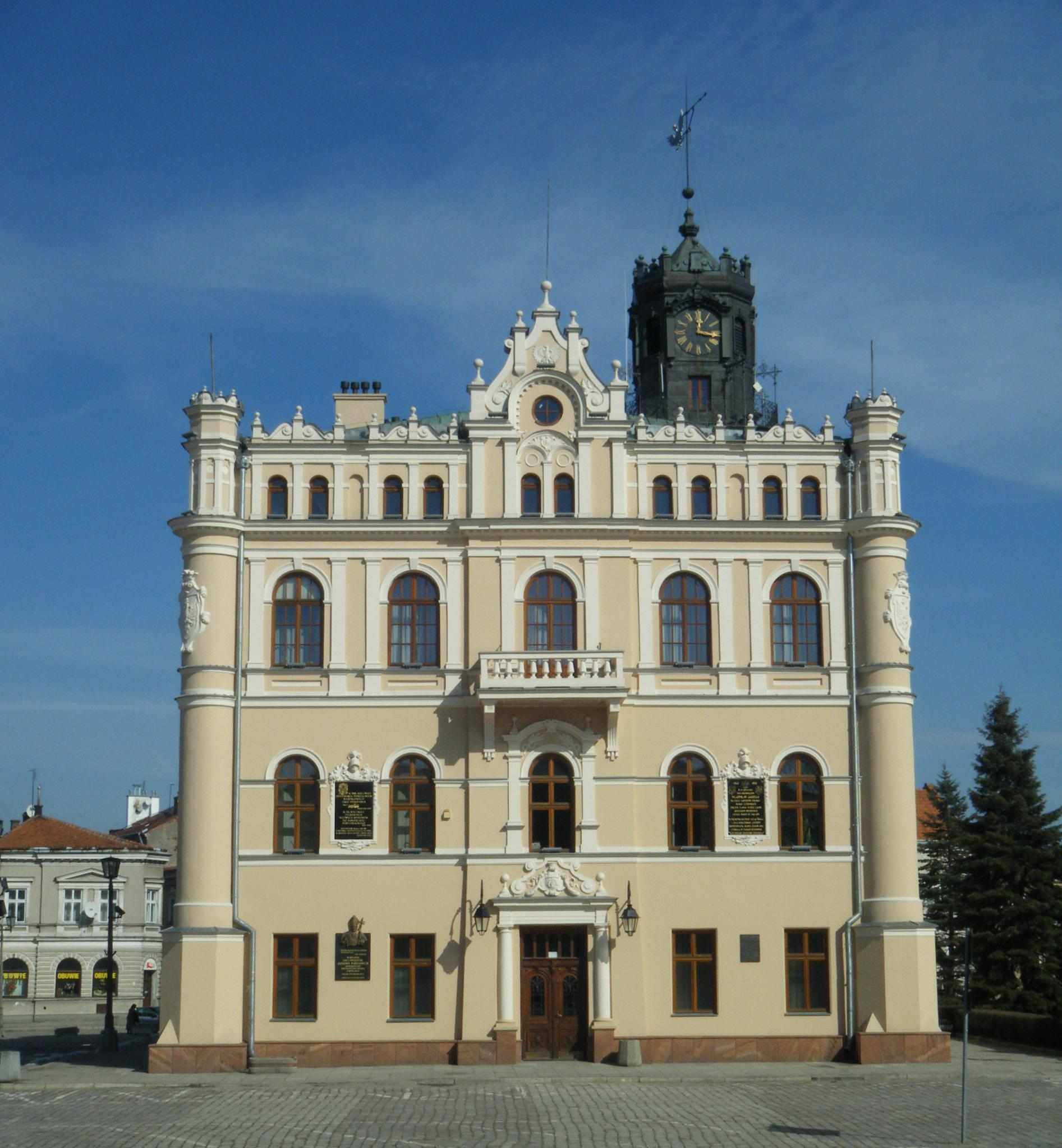 Jarosław, market, town hall